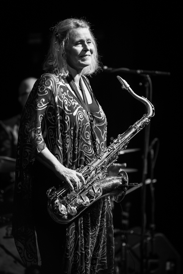 Bodil Niska performs at Chat Noir during the Oslo Jazzfestival 2015